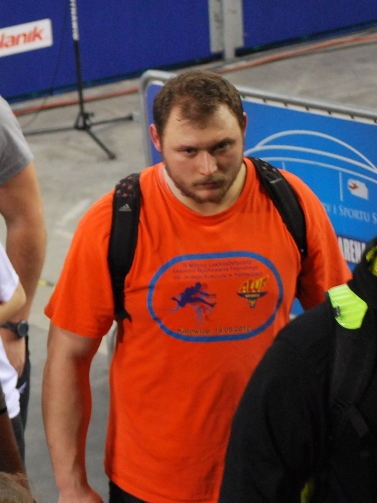 Pedros Cup 2015 Łódź, Krzysztof Brzozowski, shot putter from Poland